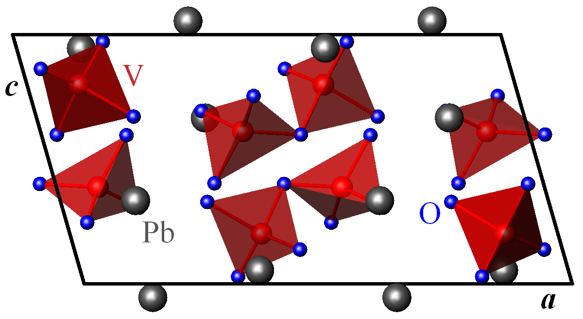 Crystal structure of chervetite, Pb2V2O7, P21/a (No 14, P21/c with different cell setting). Data source: A. Kawahara, "La structure cristalline de la chervétite", Bulletin de la Société Française de Minéralogie et de Cristallographie, 90, 1967, 279-284.